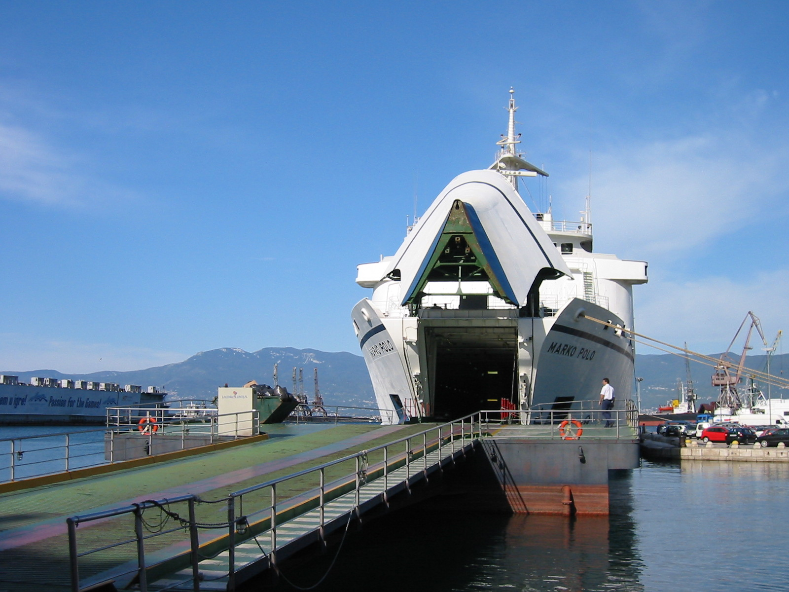 The Adriatic ferry "Marko Polo" at Rijeka harbour, Croatia. Behind is the Učka mountain on the Istra peninsula.